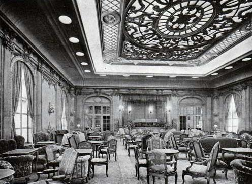 First Class Lounge of the RMS Majestic (1914)